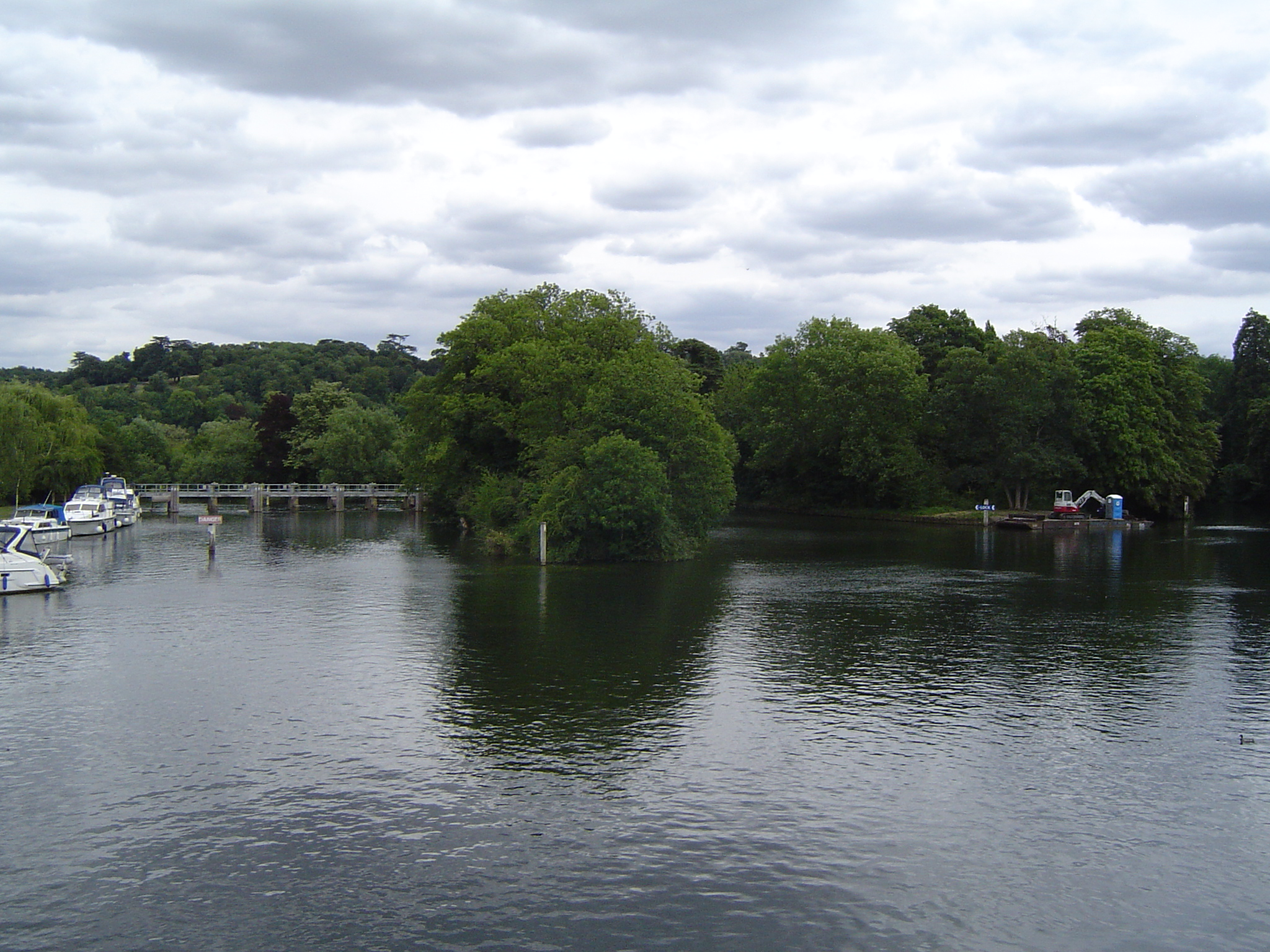 Head of Sashes Island on the RIver Thames at Cookham